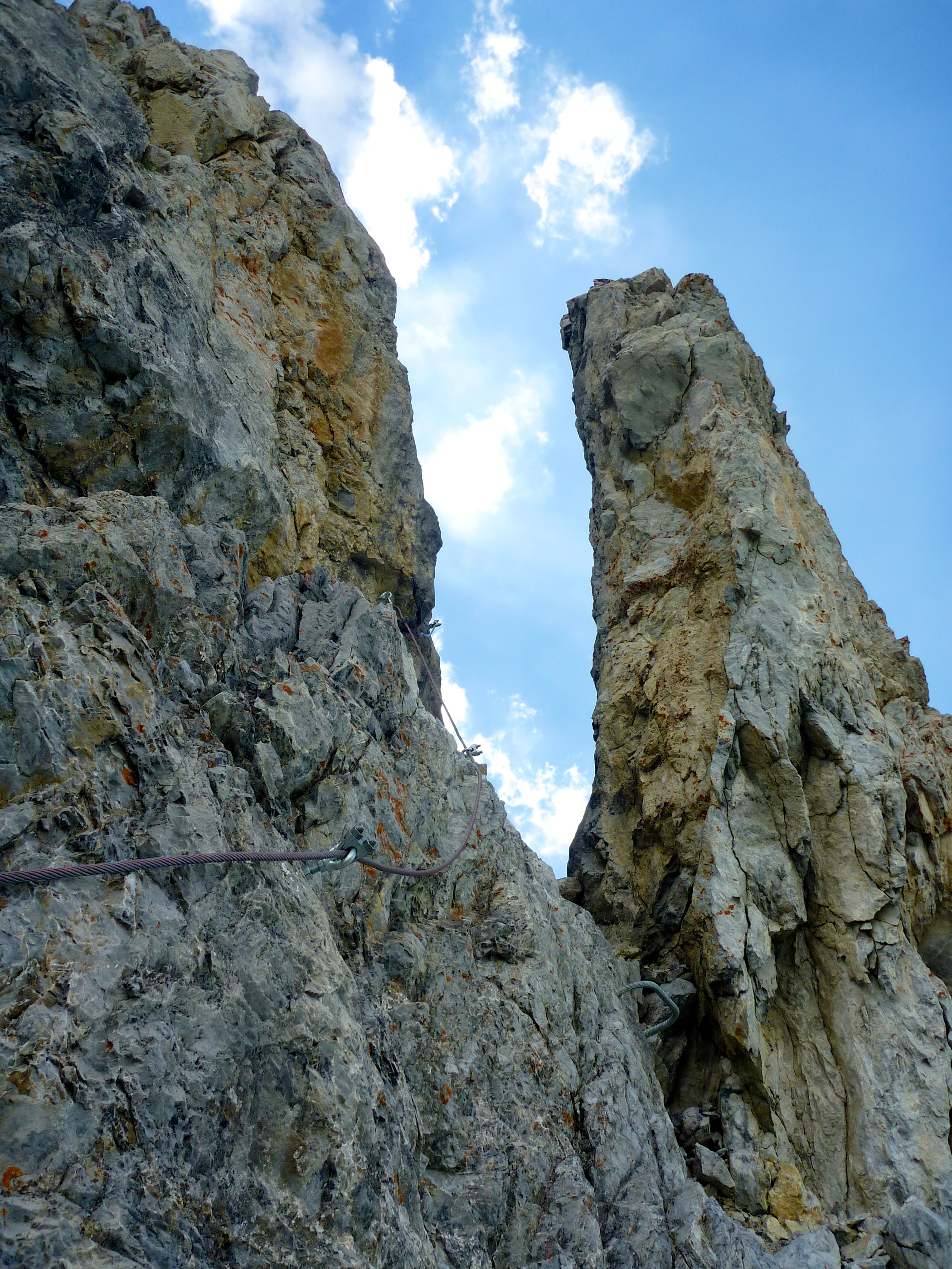 Entrance to fixed rope route "Tschirpen" in Arosa/Switzerland